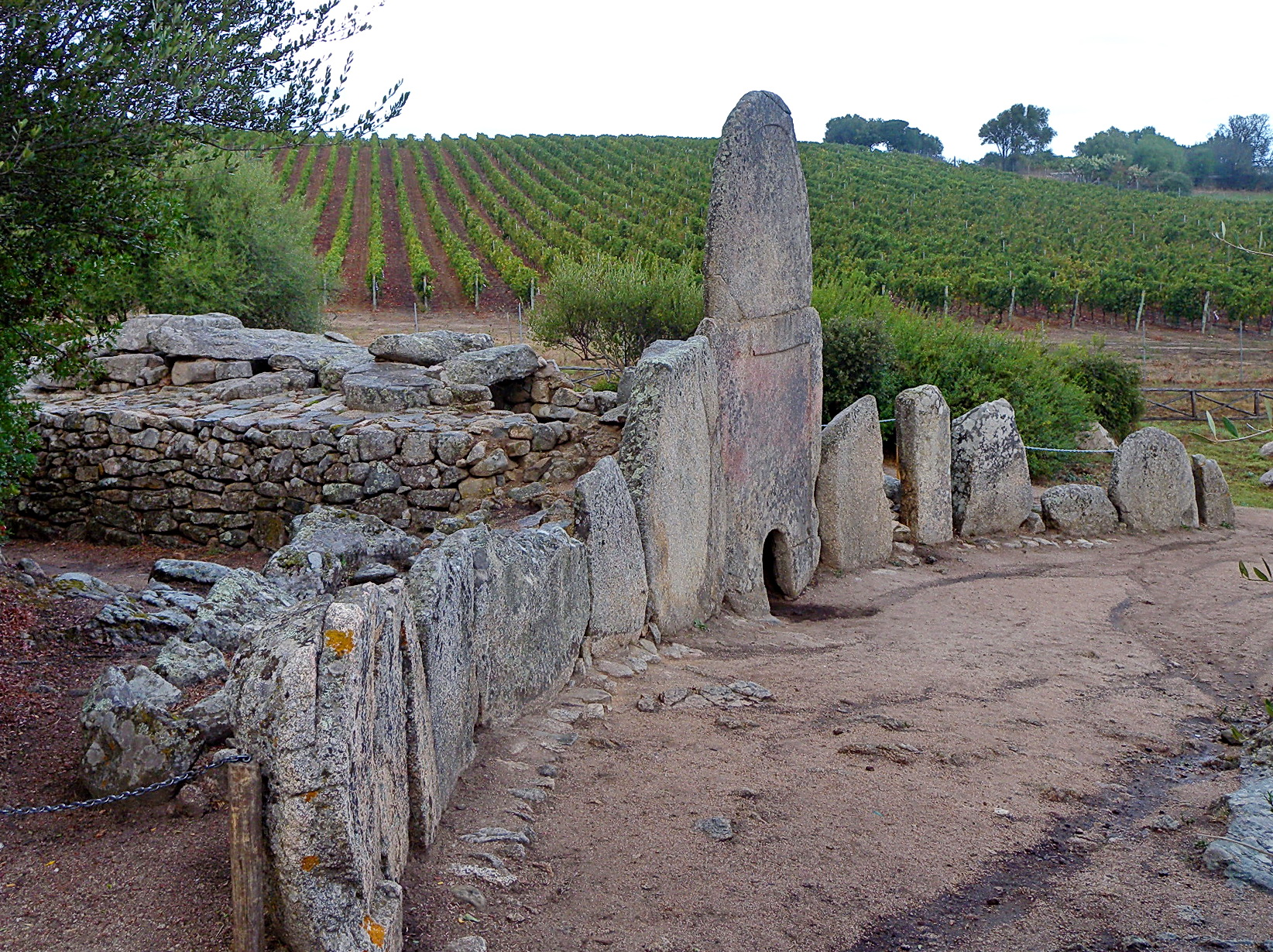 domus de janas in Arzachena-Coddu Vechiu